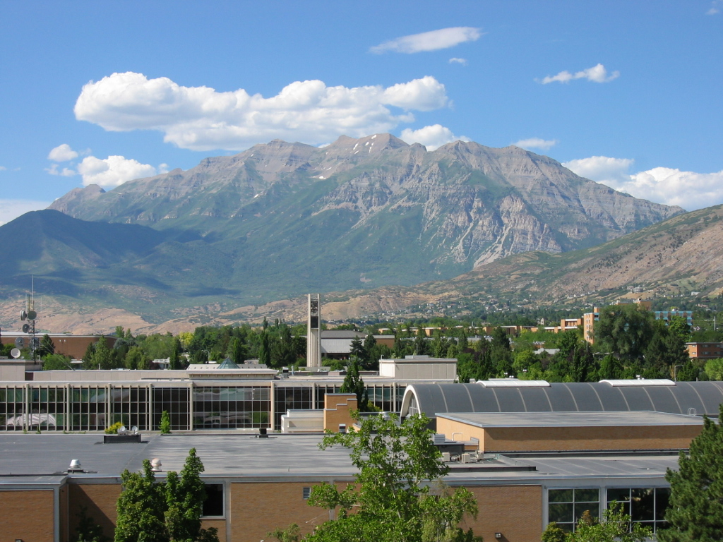 BYU campus looking North from atop the Clyde Building.